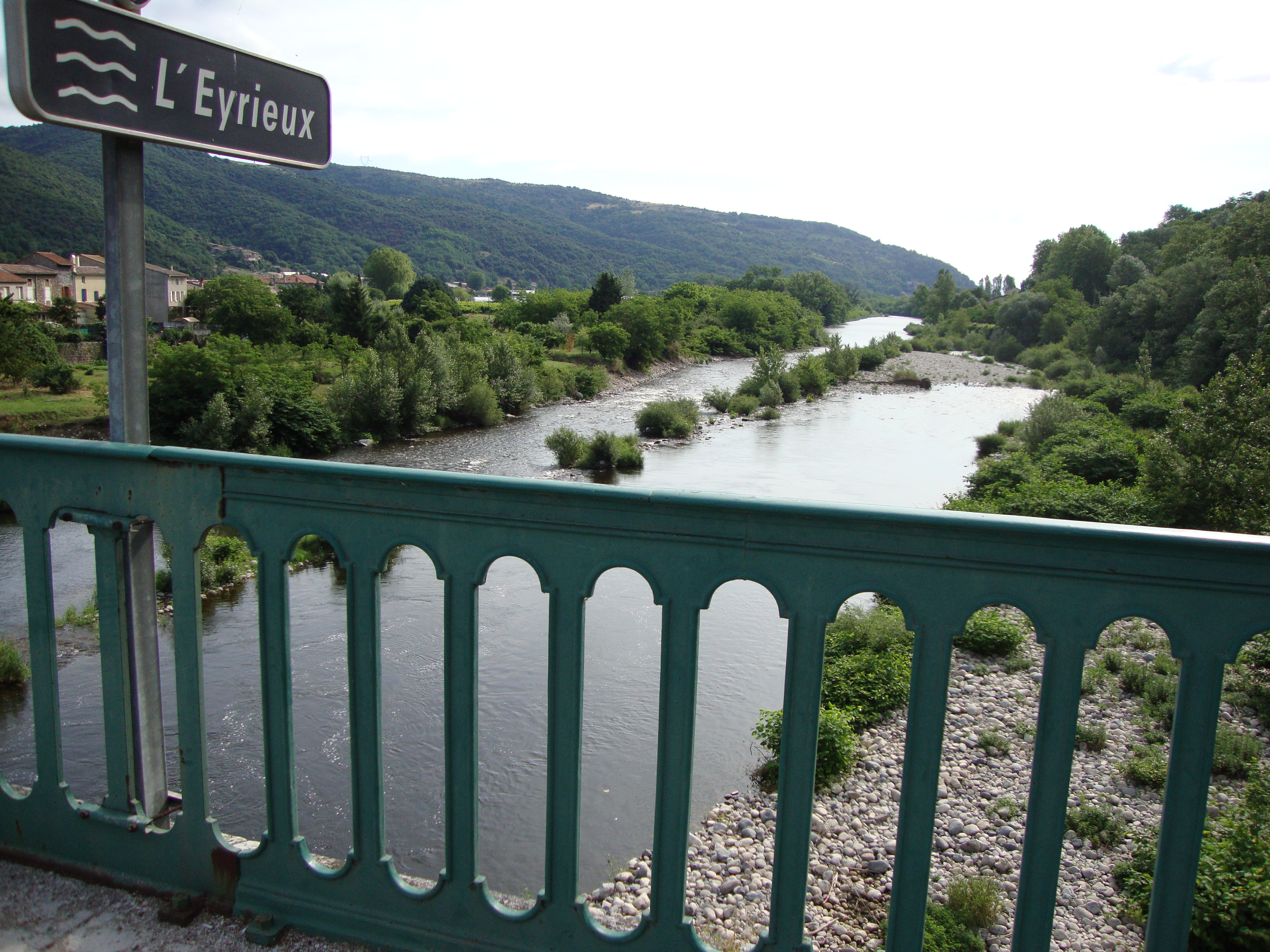 St.Laurent-du-Pape (Ardèche, Fr) L'Eyrieux